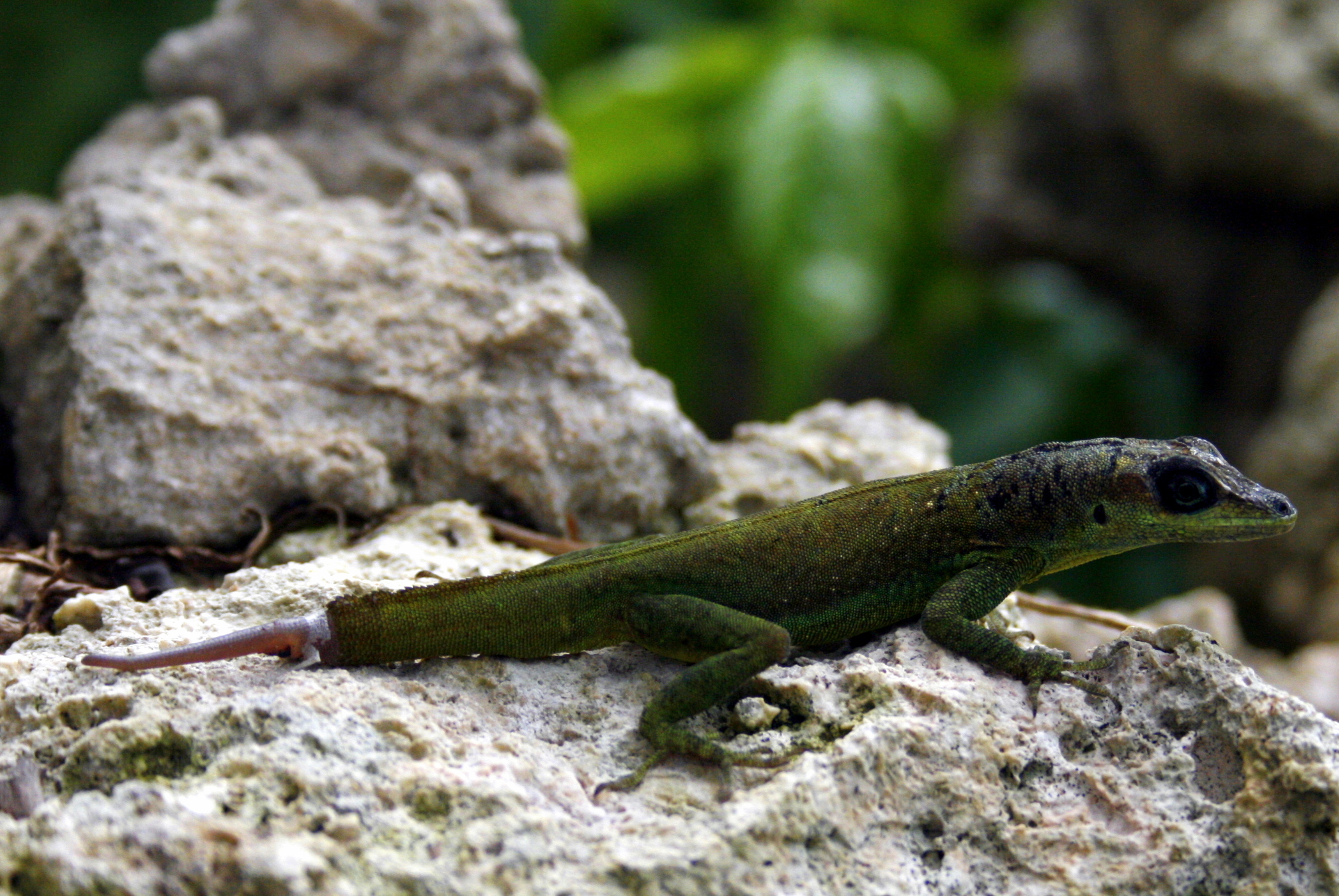 An Anolis extremus with a missing tail